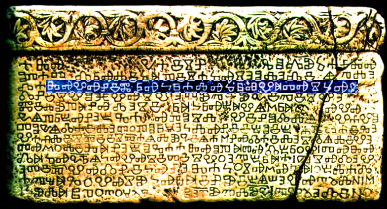 The famous Baščanska ploča, oldest evidence of the glagolitic script. Found on the island of Krk, Croatia. Permission to publish from user neoneo13.